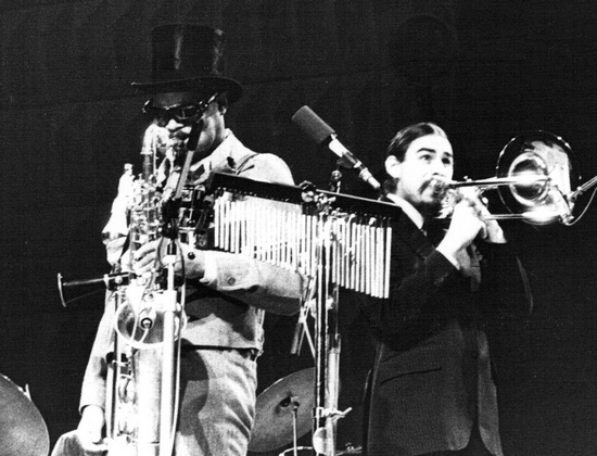 Saxophonist Roland Kirk and trombonist Steve Turre in Paris, France.